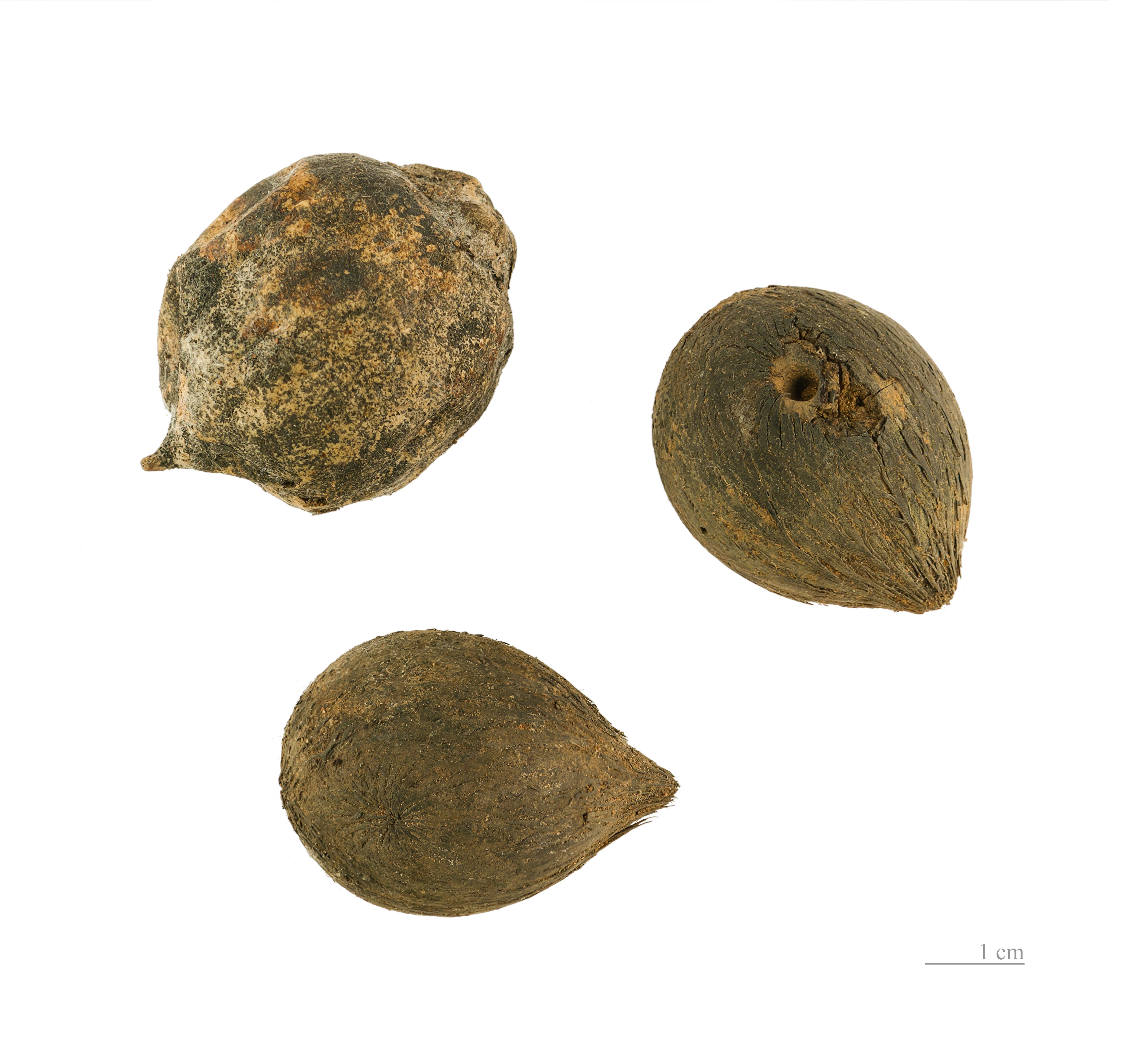 Seed of Tucumã-do-Pará